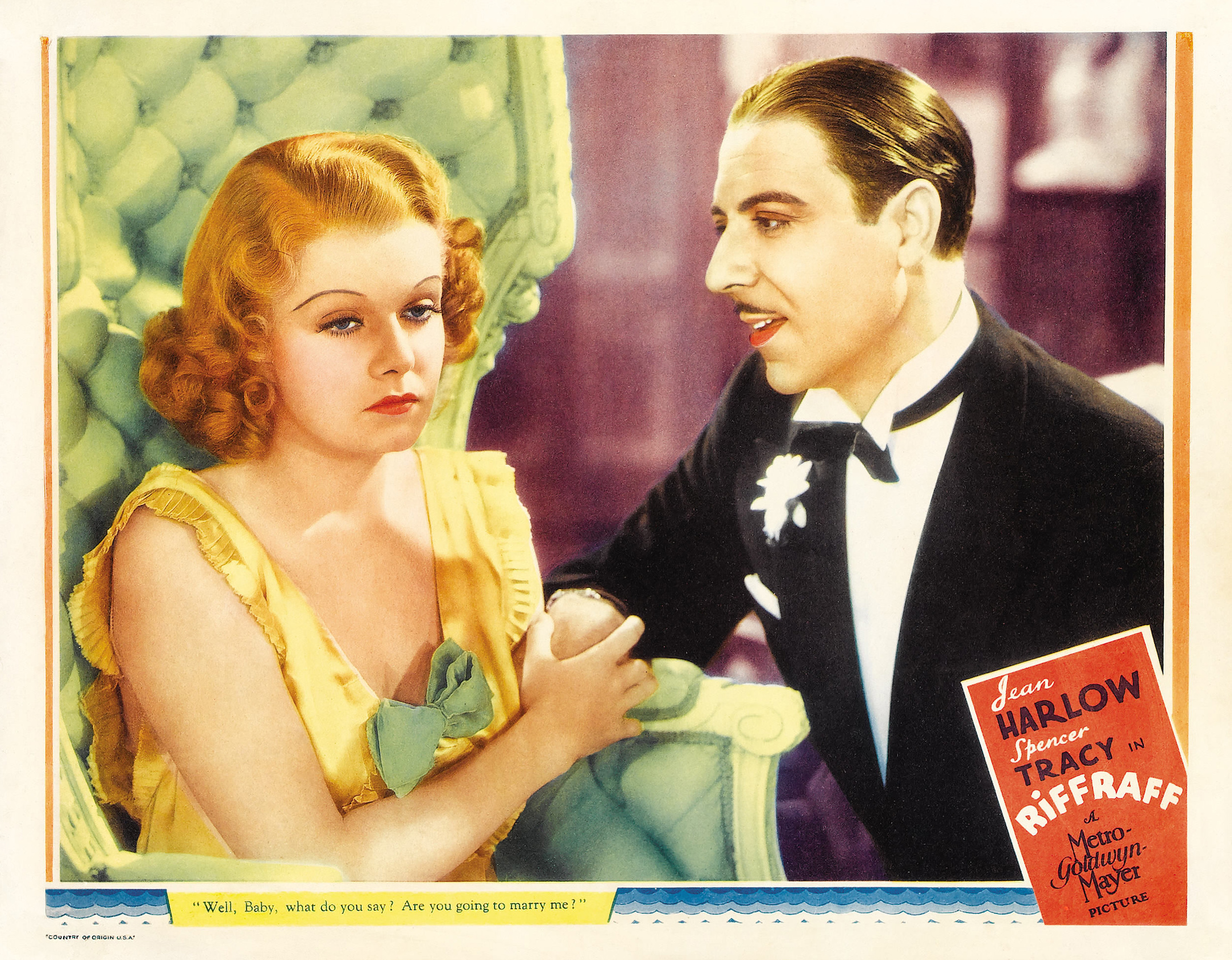 Lobby card from the American film Riffraff (1936).